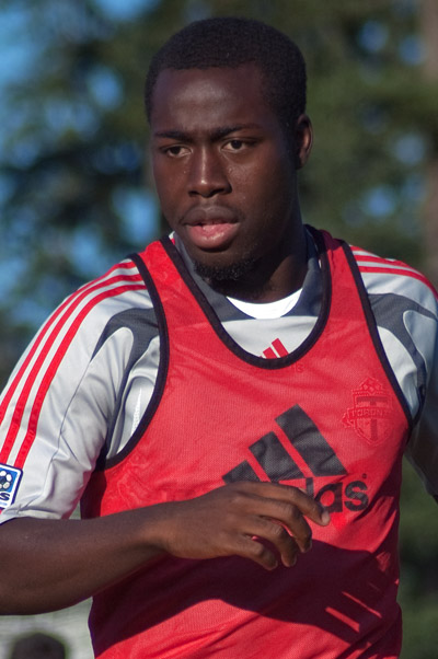 headshot of soccer player, Nana Attakora-Gyan